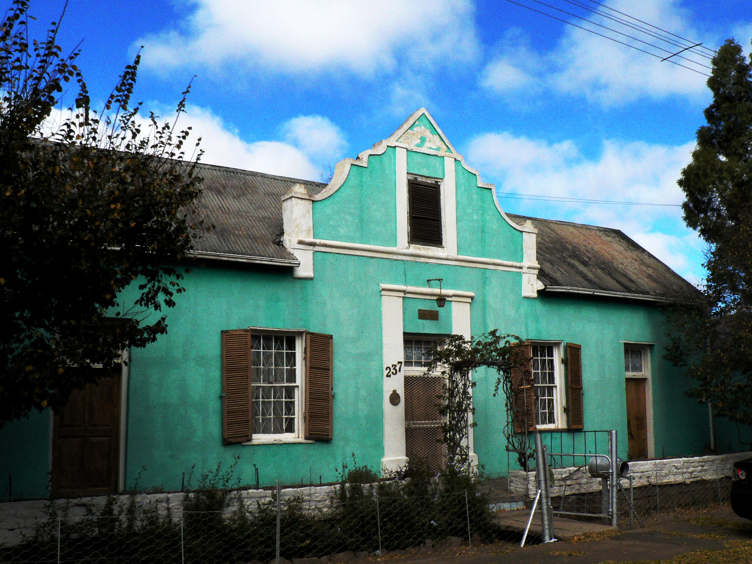 This media shows a South African Protected Site with SAHRA file reference 9/2/078/0004.